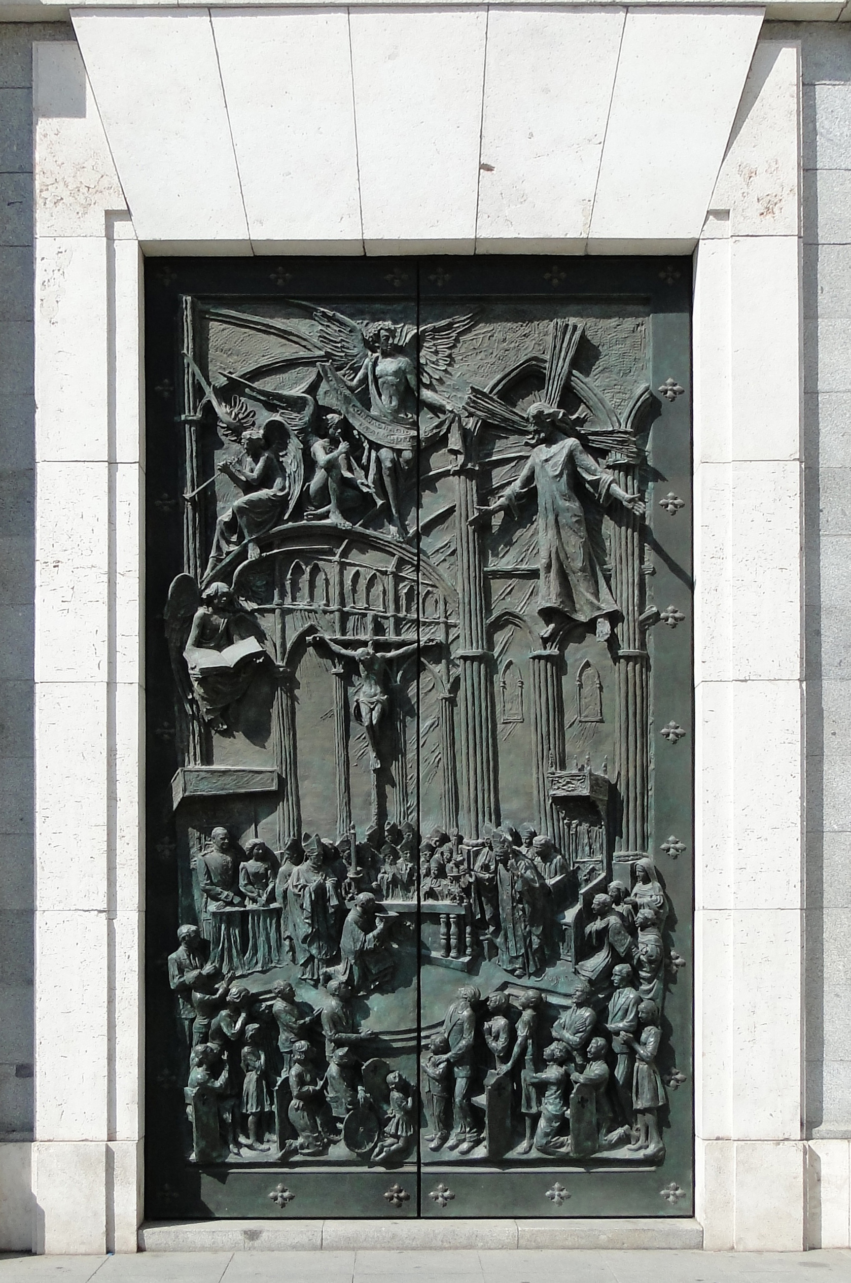 Main portal of the Southeast façade of the Almudena Cathedral, Madrid, Spain